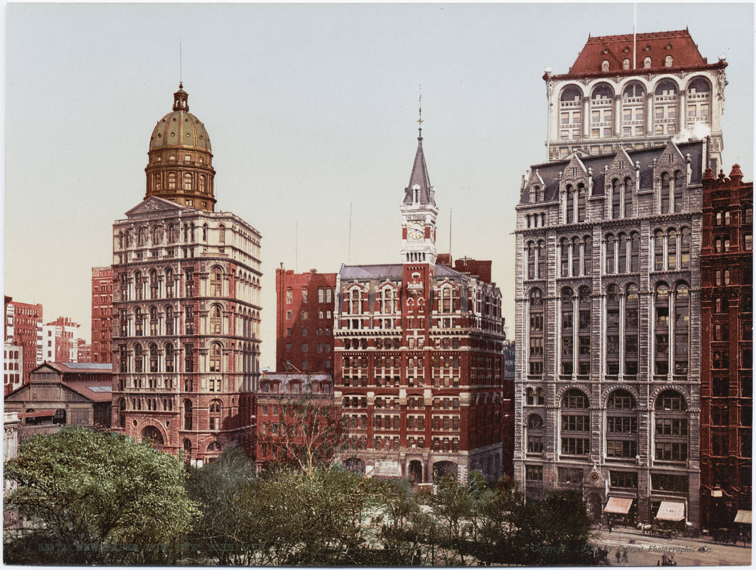 A photochrom postcard published by the Detroit Photographic Company.